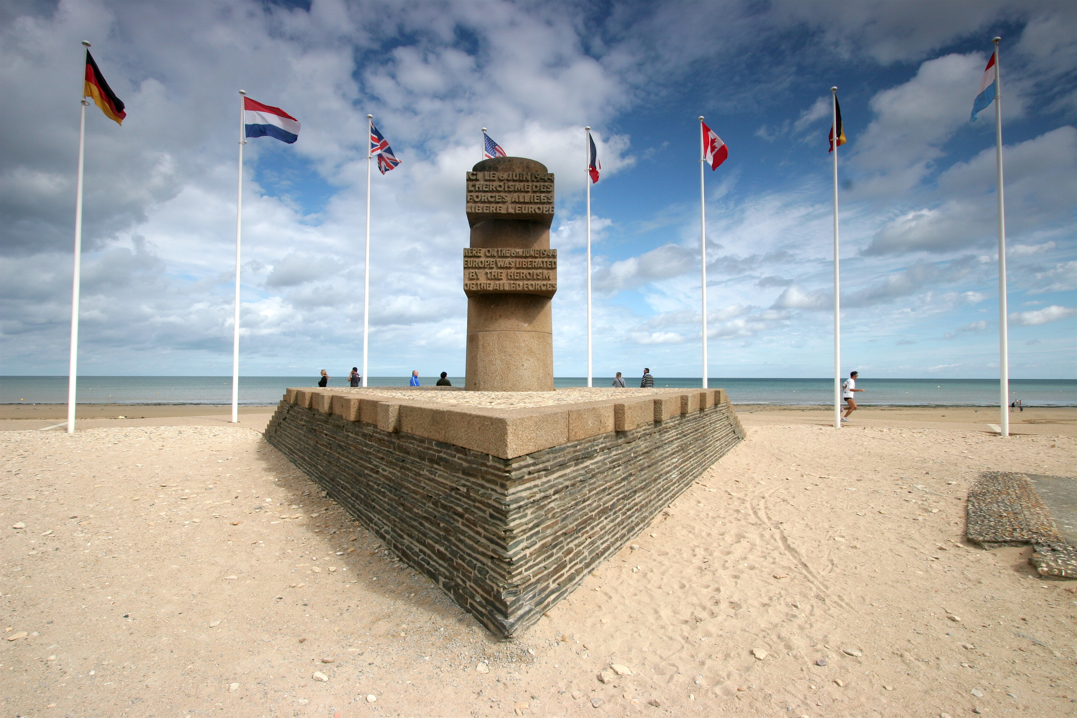 D-Day Monument, in Bernières-sur-Mer.